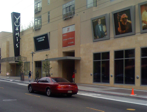 Yoshi's Jazz Club on Fillmore Street in San francisco, California